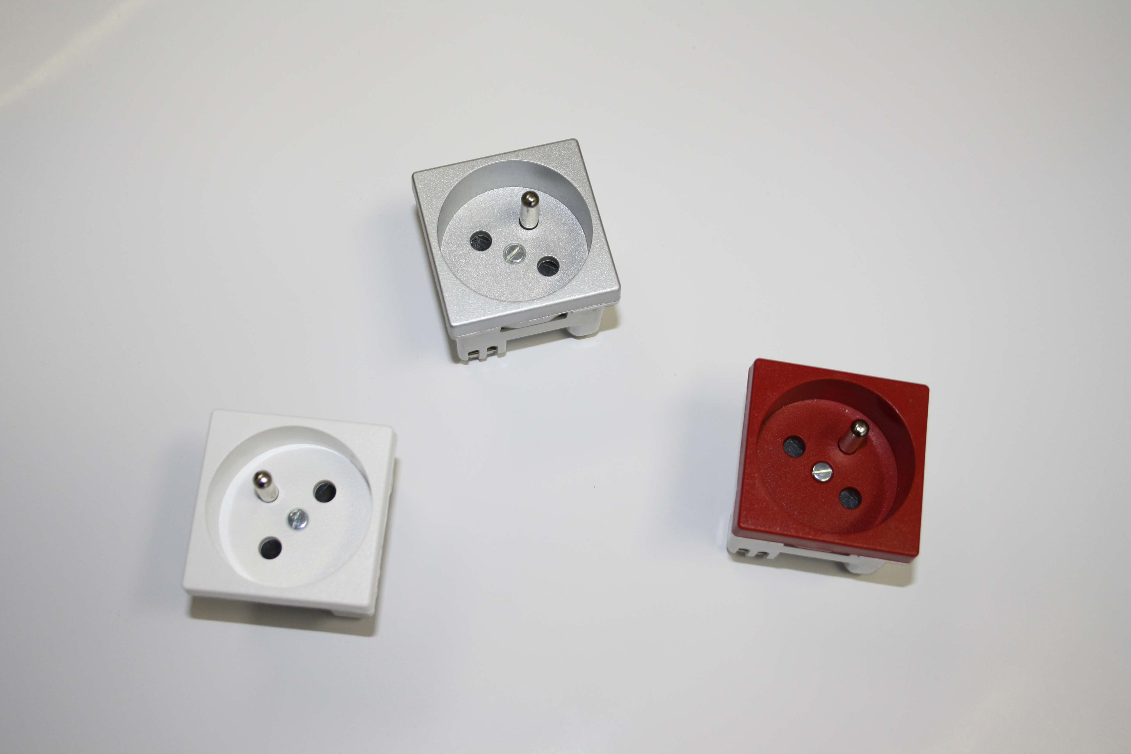 Power sockets 45 x 45 mm